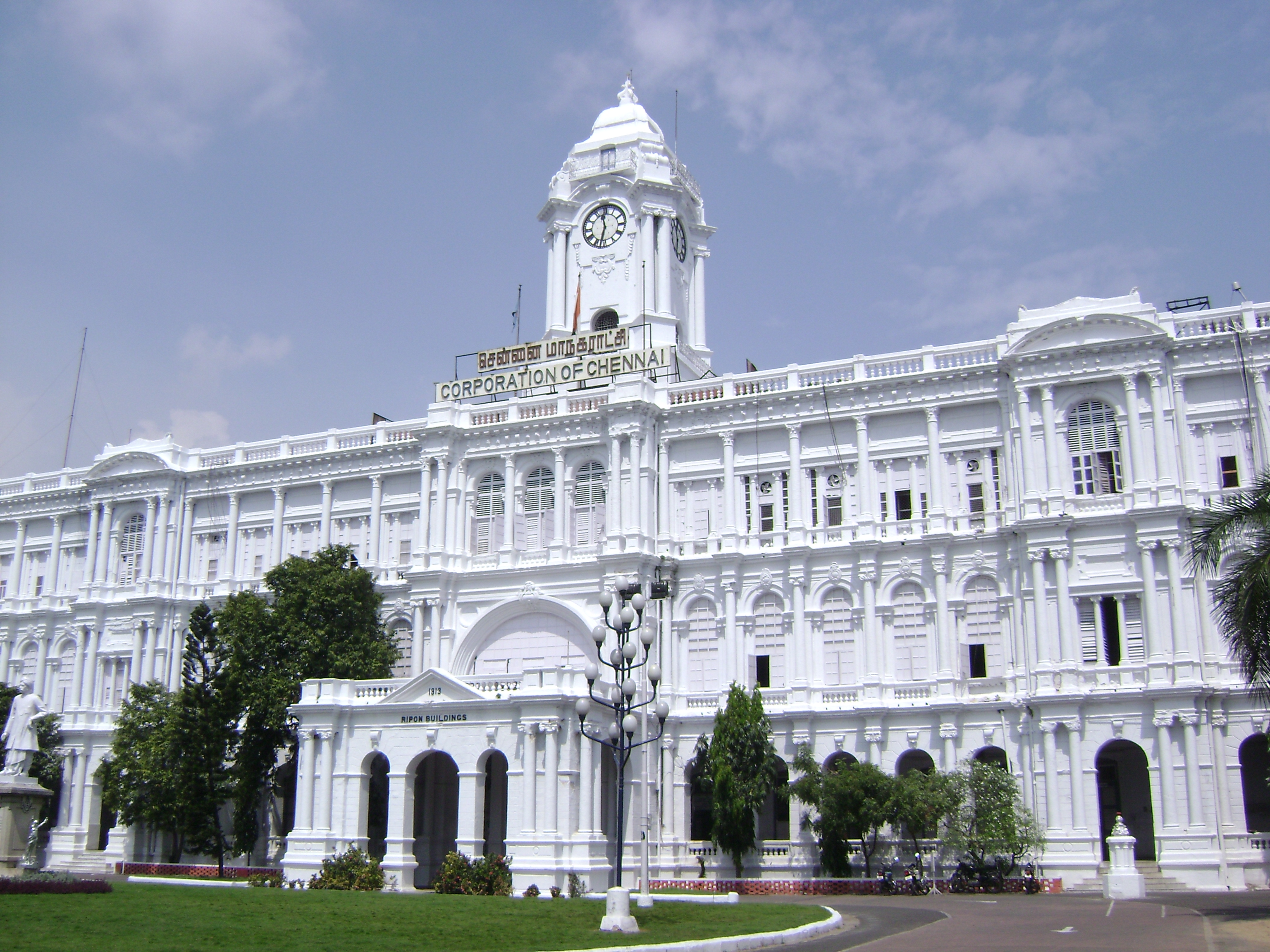 Ripon Building at Chennai, India.